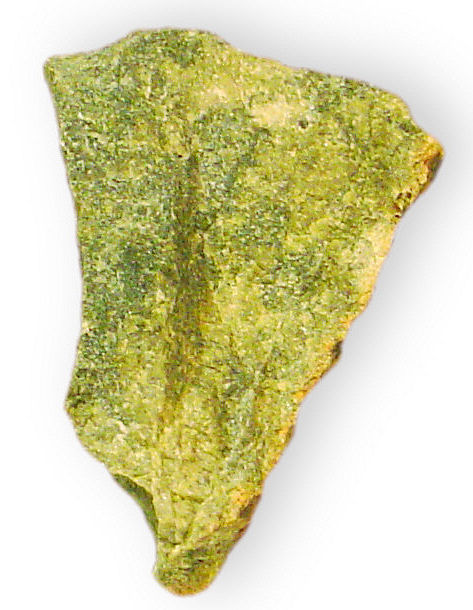 These mineral images are free to use how you wish.